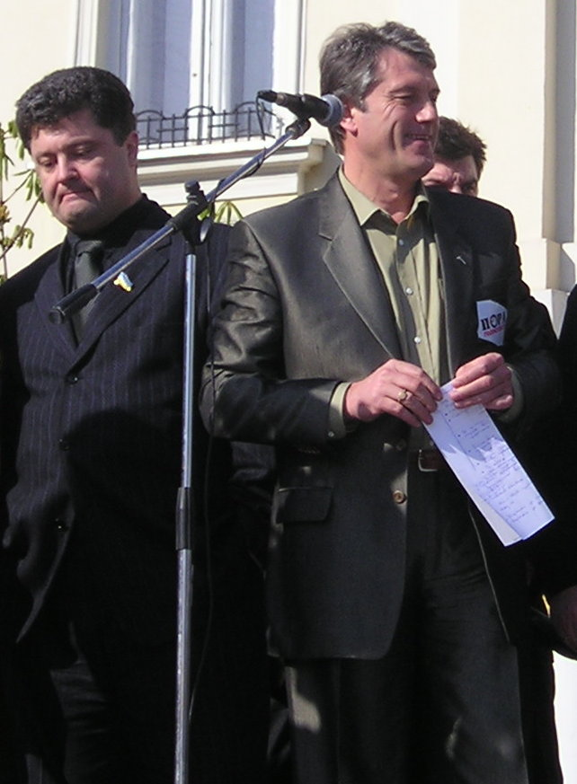 Viktor Baloha and Viktor Yushchenko during the meeting before Mukacheve mayoral election on 16 April 2004, Mukacheve, Ukraine